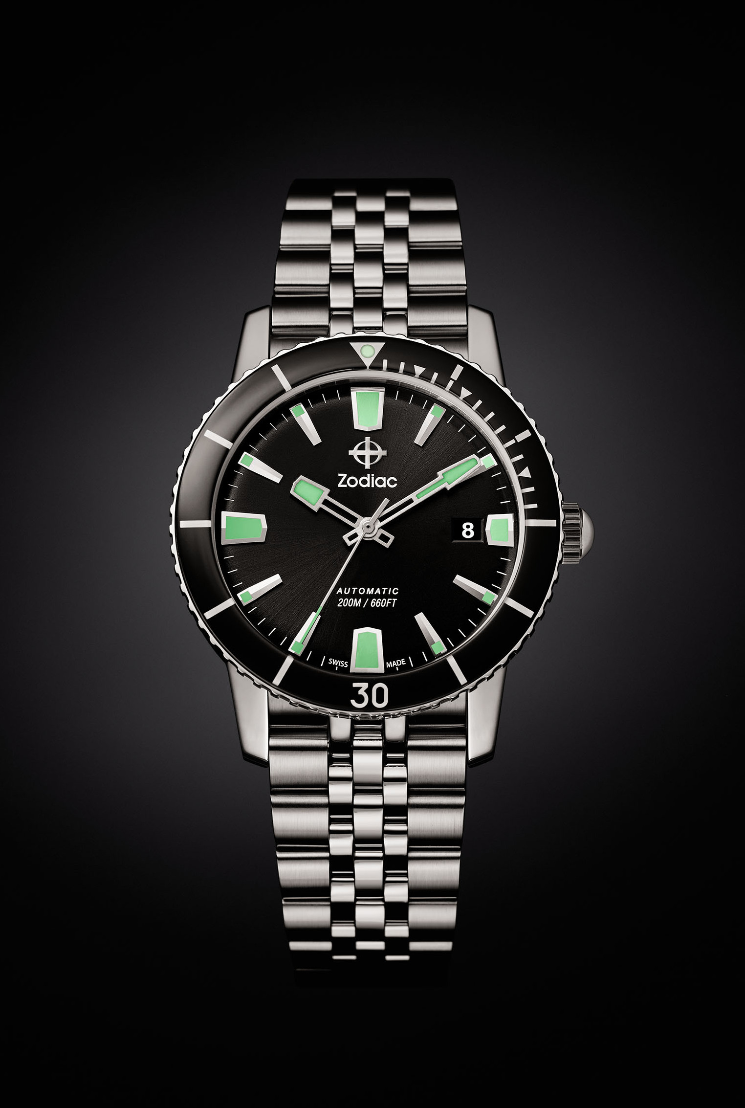 ZOD1996